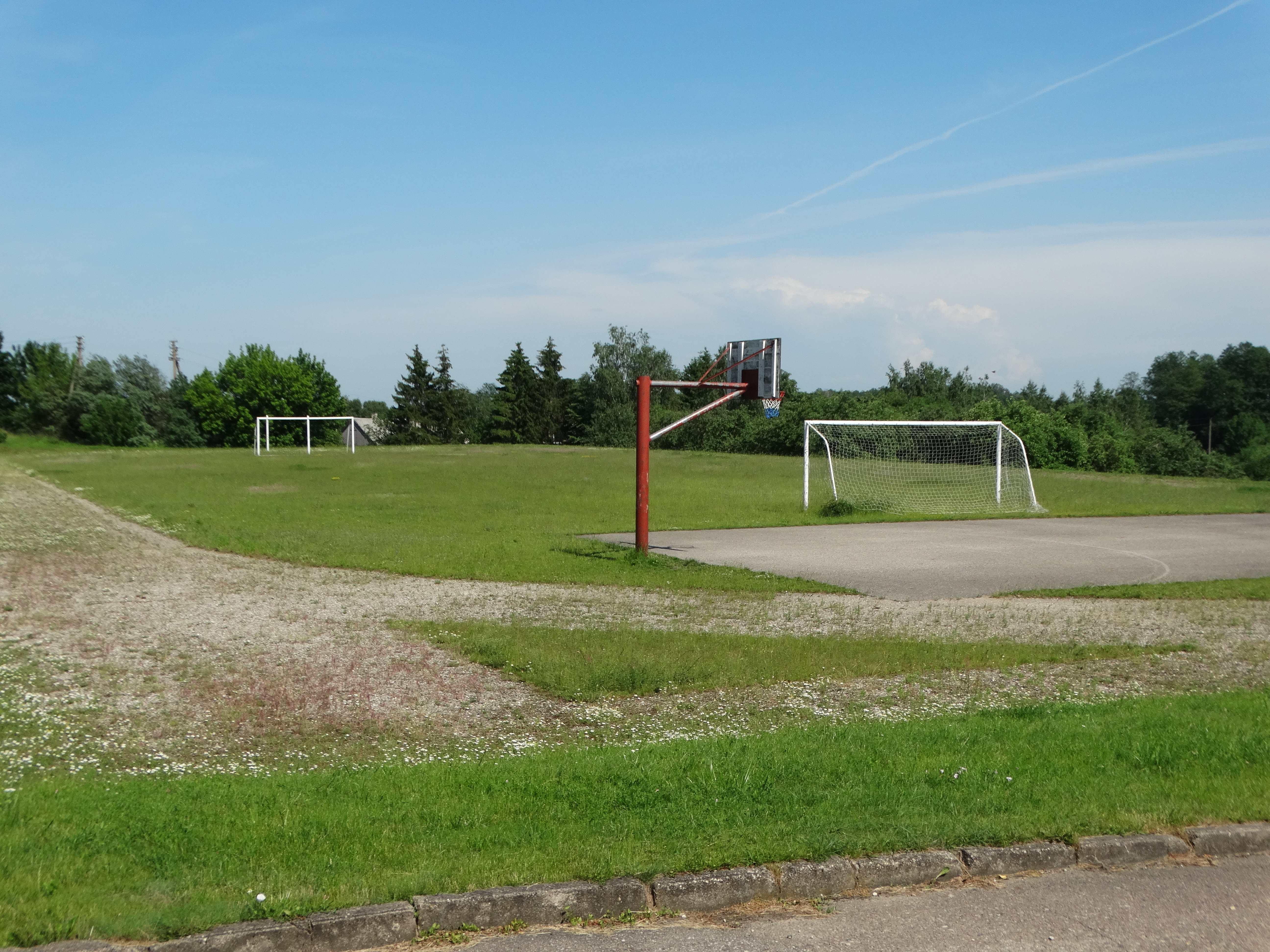 Siesikai, gymnasium stadium, Ukmergė district, Lithuania